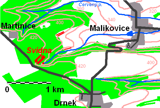 Location of deserted medieval village of Svídna in a forest near Drnek and Malíkovice, Kladno District, Czech Republic. Spring in a ravine just south of Svídna and traces of field stripes east of it are also highlited in red.